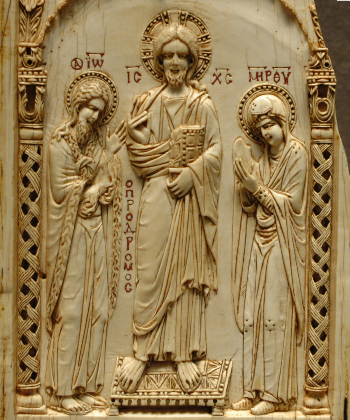 Deesis (from Gr. δέησις / deêsis, "prayer"): intercession of the Virgin and John the Baptist before Christ. From the cathedral of Vic, Catalonia.